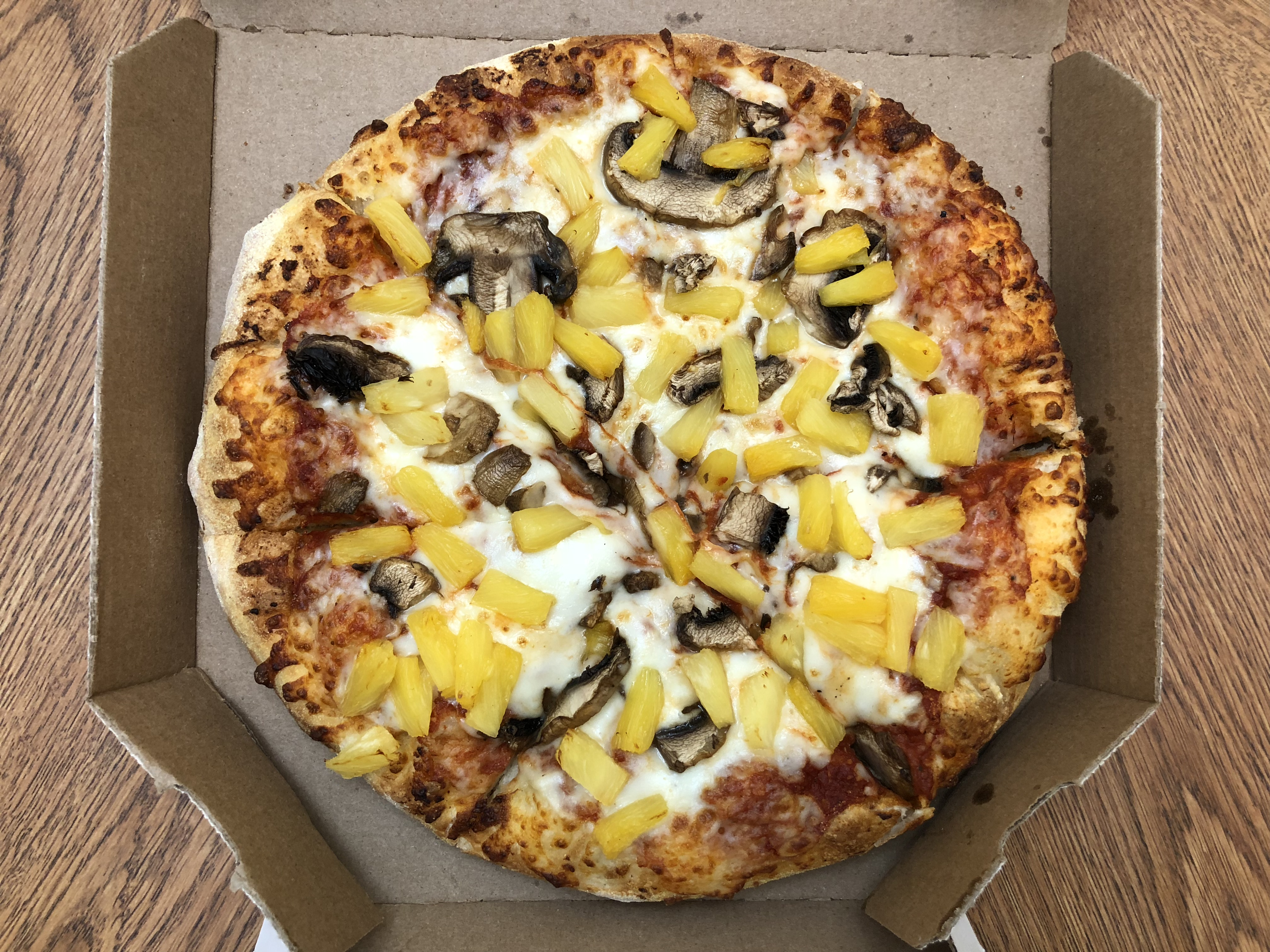 A small Domino's pizza with mushrooms and pineapple in the Franklin Farm section of Oak Hill, Fairfax County, Virginia